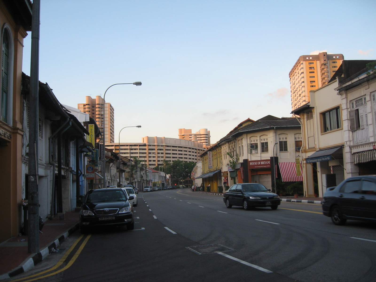 North Bridge Road.